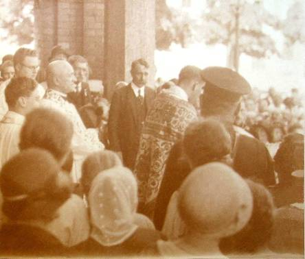 Heinrich Maier 1932, blessing hundreds of people standing out of church (He is in the middle of the picture), private photoarchive